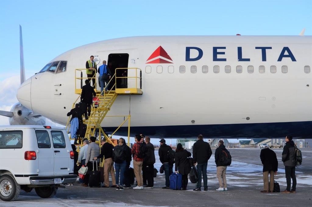 Customers board another Boeing 767 to complete their flight to Portland after Delta flight 68 diverted to Cold Bay, AK with a possible issue with one of the aircraft's engines.